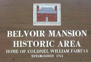 Historic Belvoir Mansion sign